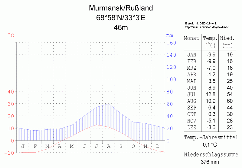 climate chart in the format by Walther and Lieth, metric, °Celsisus and millimeters, made with Geoklima 2.1